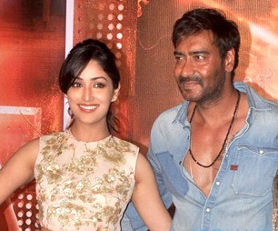 Yami Gautam with Ajay Devgn at the First look launch of 'Action Jackson' snapped on 23 Oct 2014.